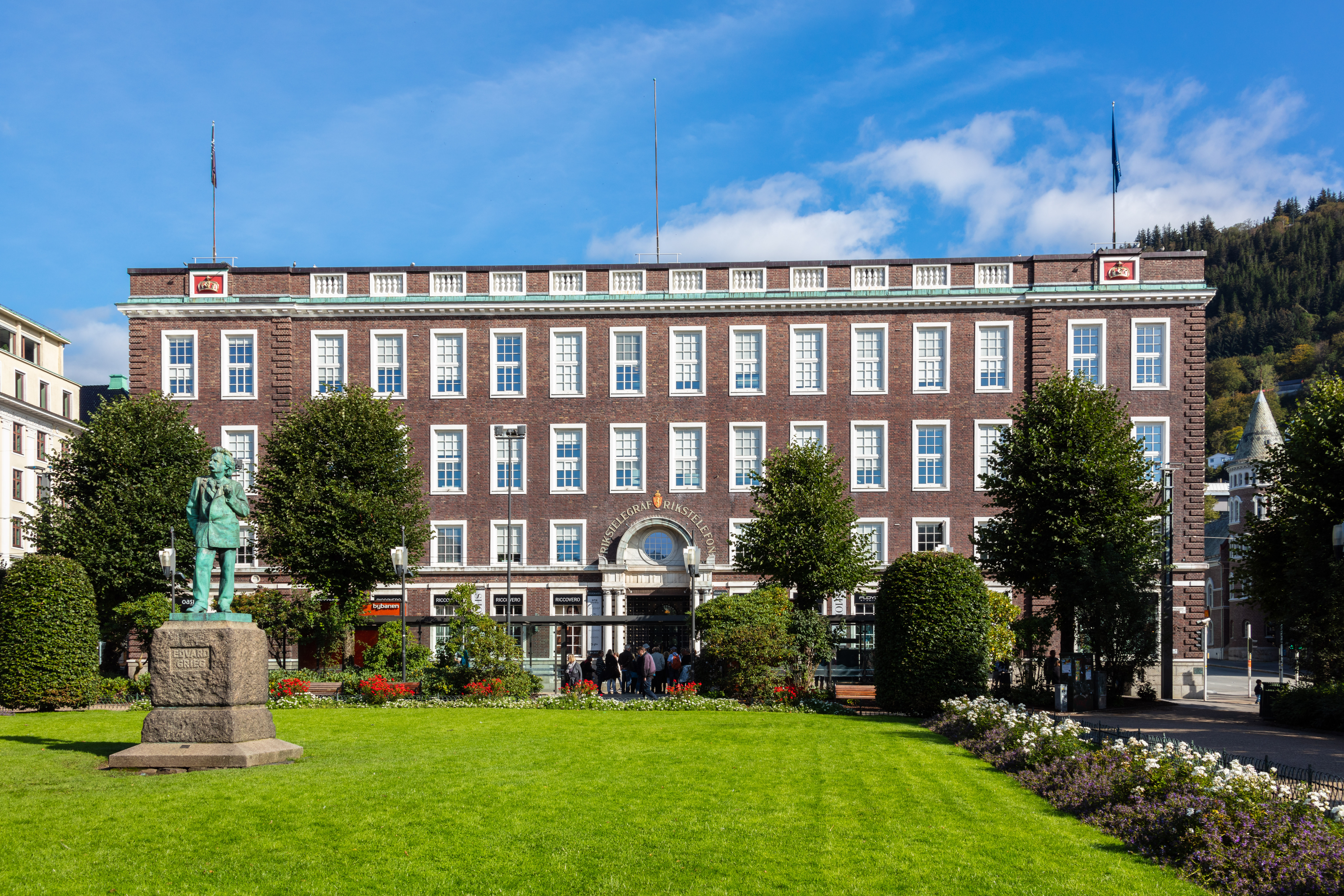 Telegrafbygningen, Bergen, Norway